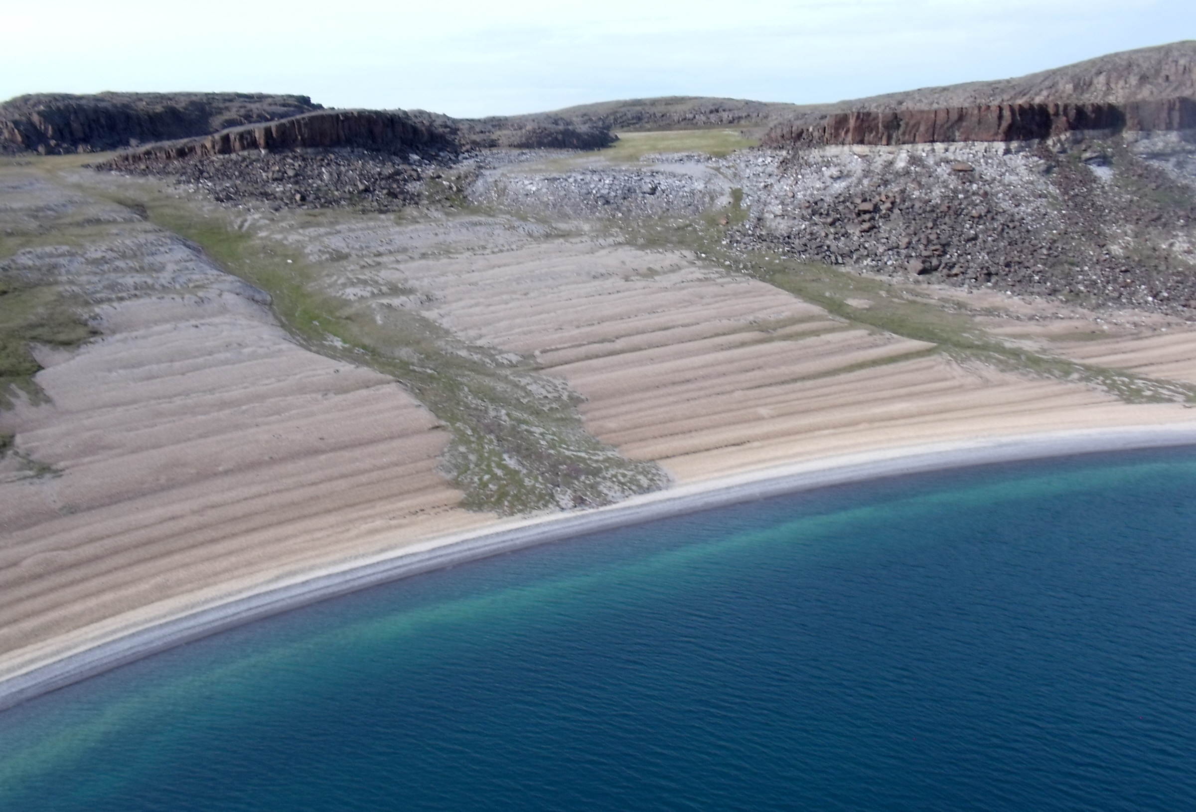 Many Coronation sills, part of the 723 million year old Franklin Igneous Magmatic Event, slice through the Earth's crust in the western Arctic of Nunavut. Here, at the entrance to Bathurst Inlet, an island-topping sill cuts through Proterozoic rock, a light-coloured carbonate formation in this case. The beautifully layered sand beach is caused by glacial rebound of the Arctic coastline during the current glacial interlude. Little to no tide hereabouts helped to form its layercake look. Isostatic rebound is still underway.